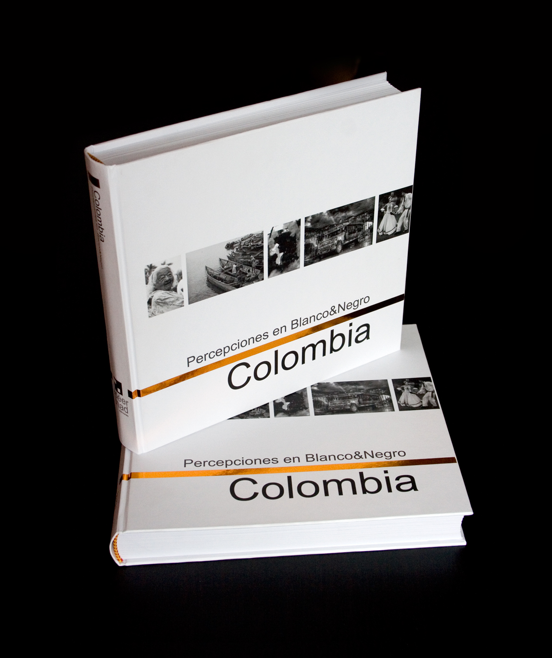 Colombia, perceptions in Black and white -Photography Book.